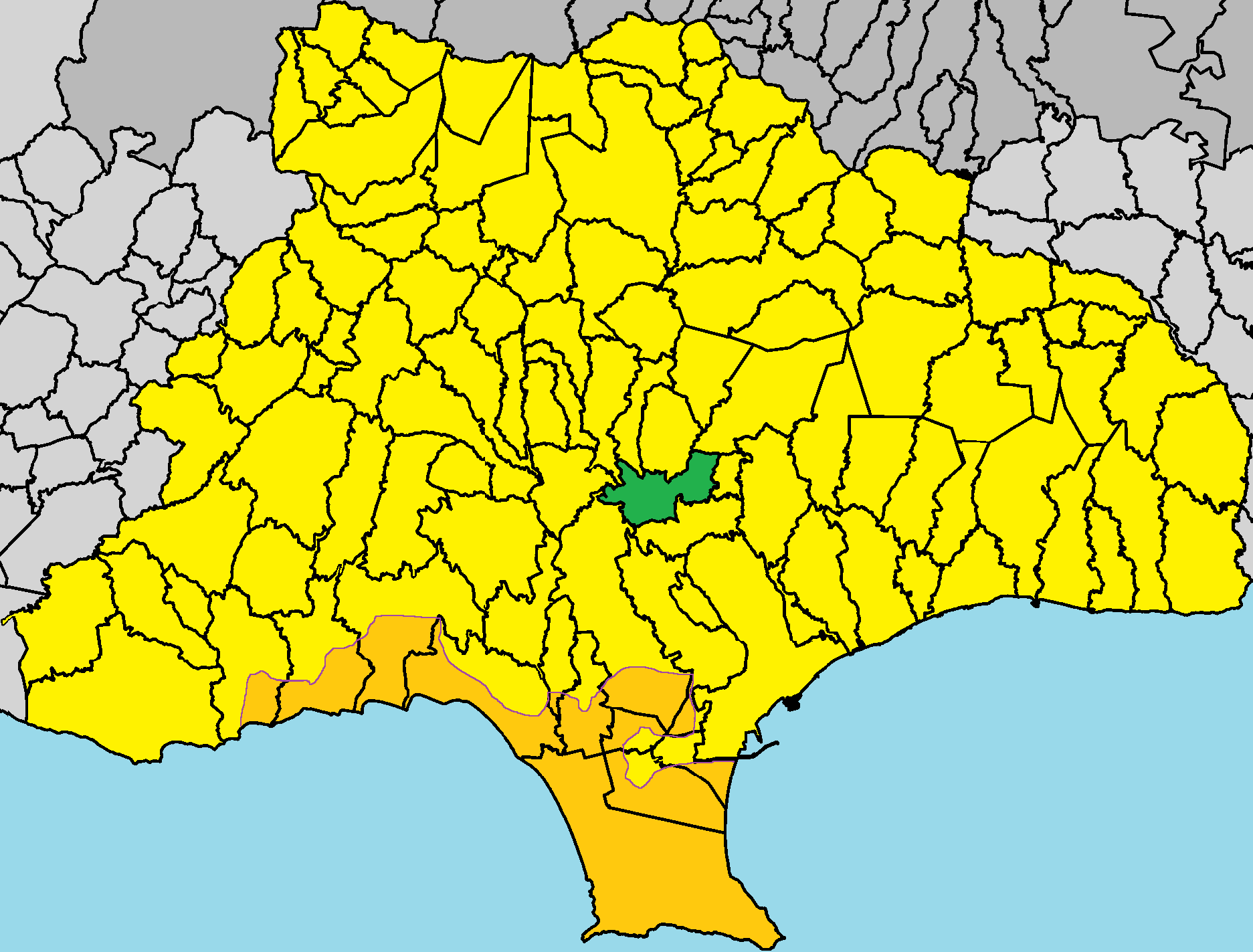 Paramytha in Limassol District.